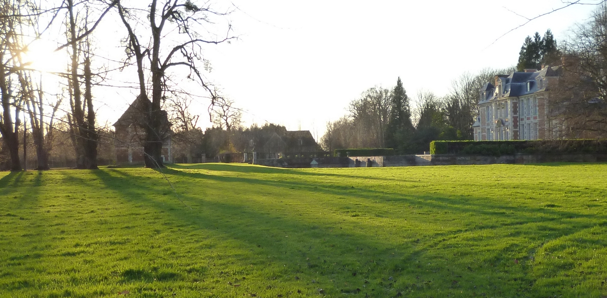 The castle Saint-Maclou-la-Campagne ans its park in Saint-Maclou (Eure, France).